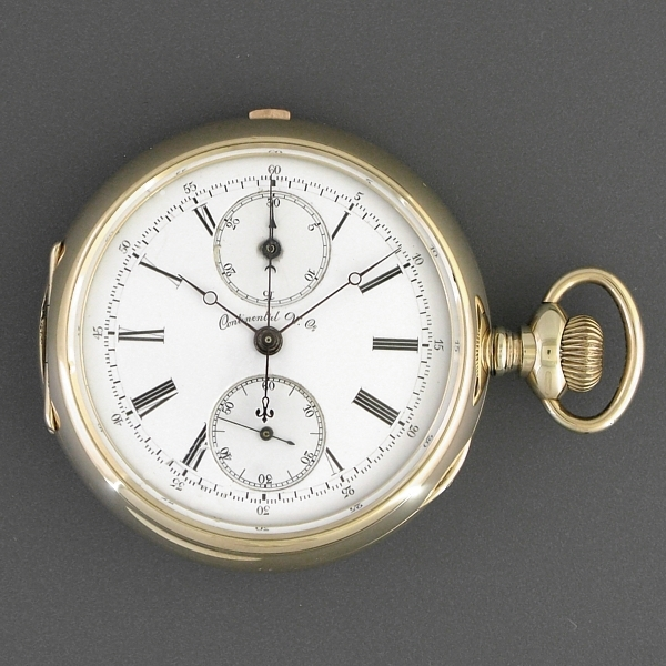 Gallet continental chrono 600x600